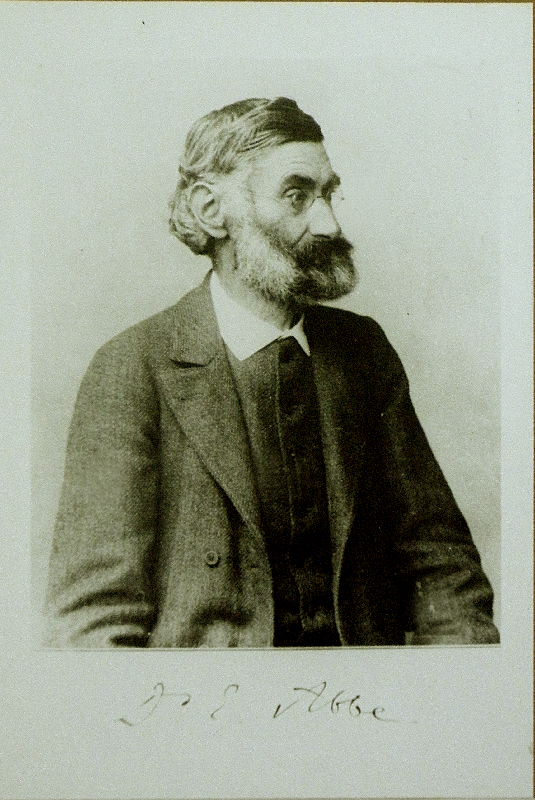 Ernst Abbe in Museum